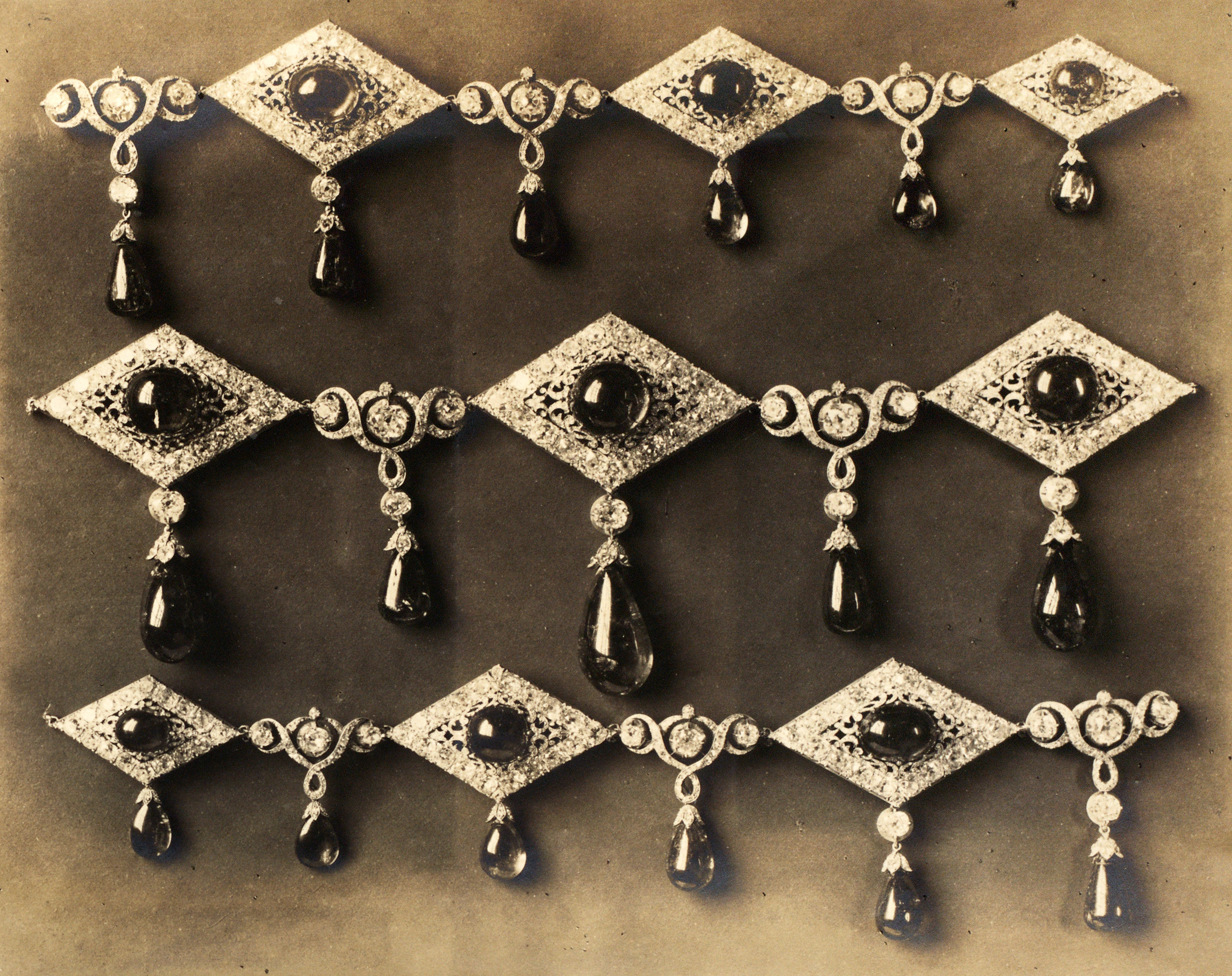 This previously unknown photo of undocumented Russian crown jewels was discovered in the USGS Library in 2012. The photo was found in a 1922 album called "Russian Diamond Fund" in the rare book room of the library. This necklace was one of the four undocumented jewels.